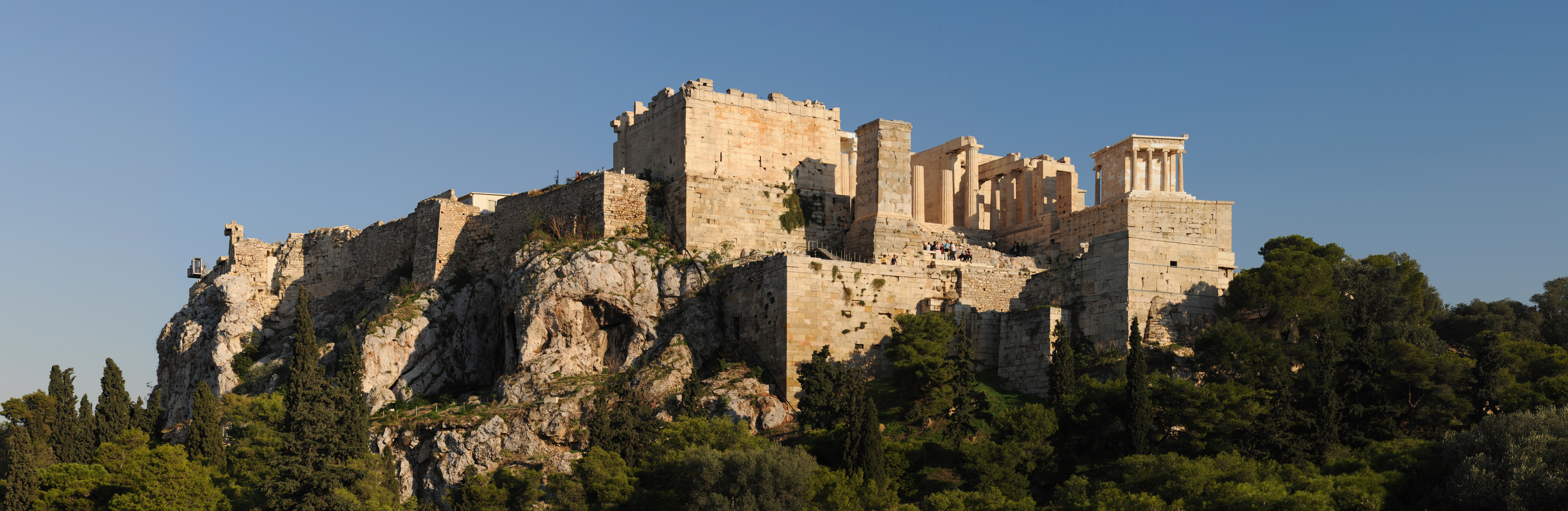 Acropolis of Athens panorama (panoramic view from Areopagus hill), Athens, Greece.